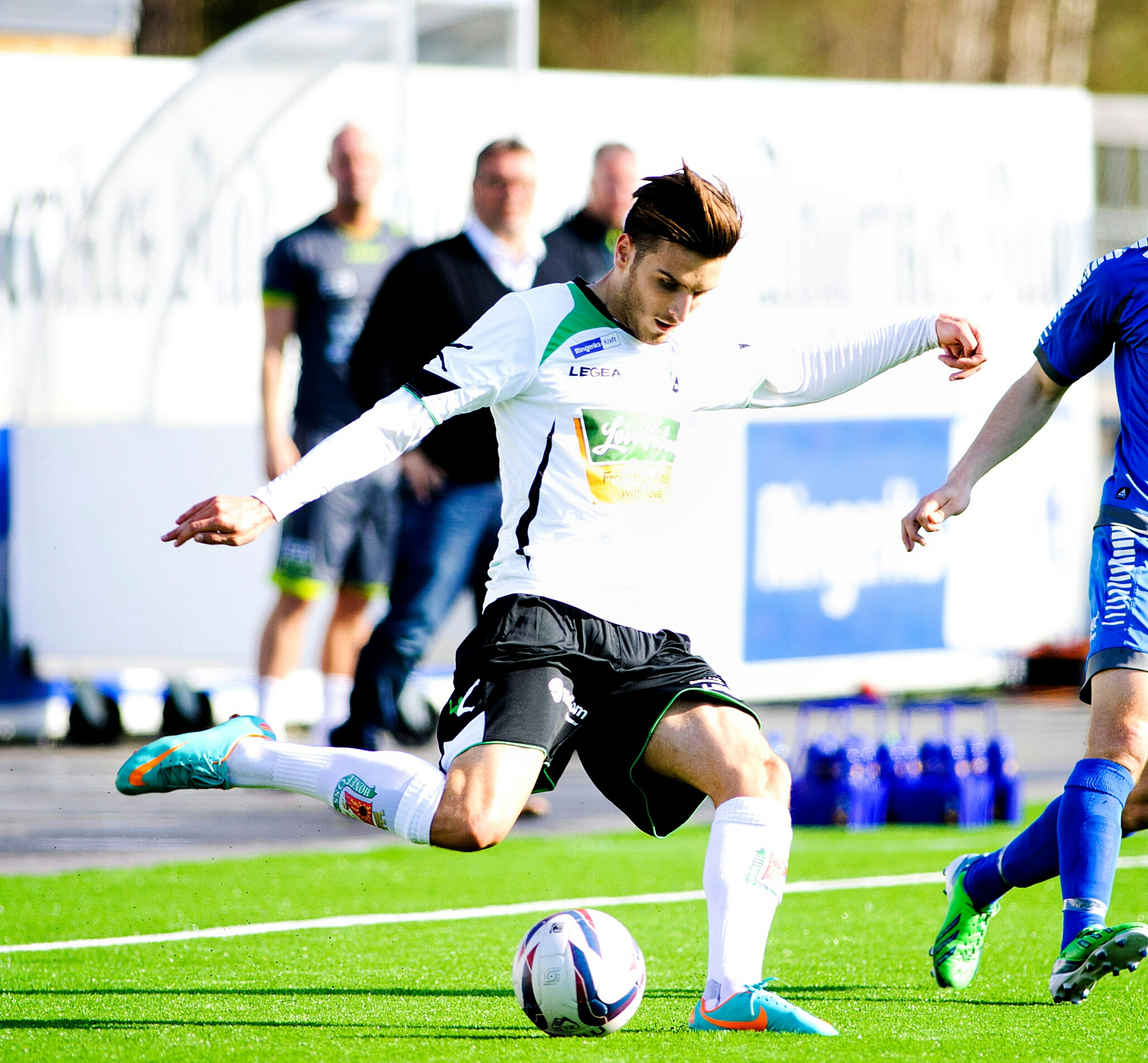 Kalezic Vasko for Honefoss BK 2014